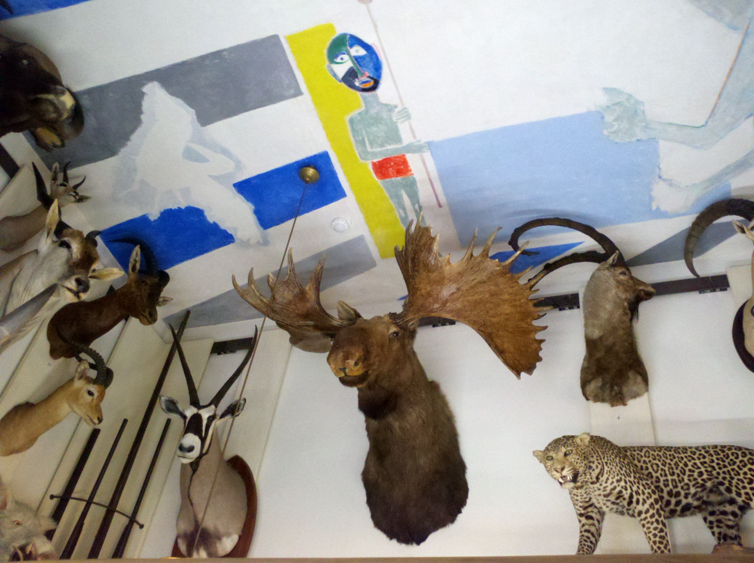 taxidermied animals in the Salle des Trophees, M. de la Chasse et de la Nature